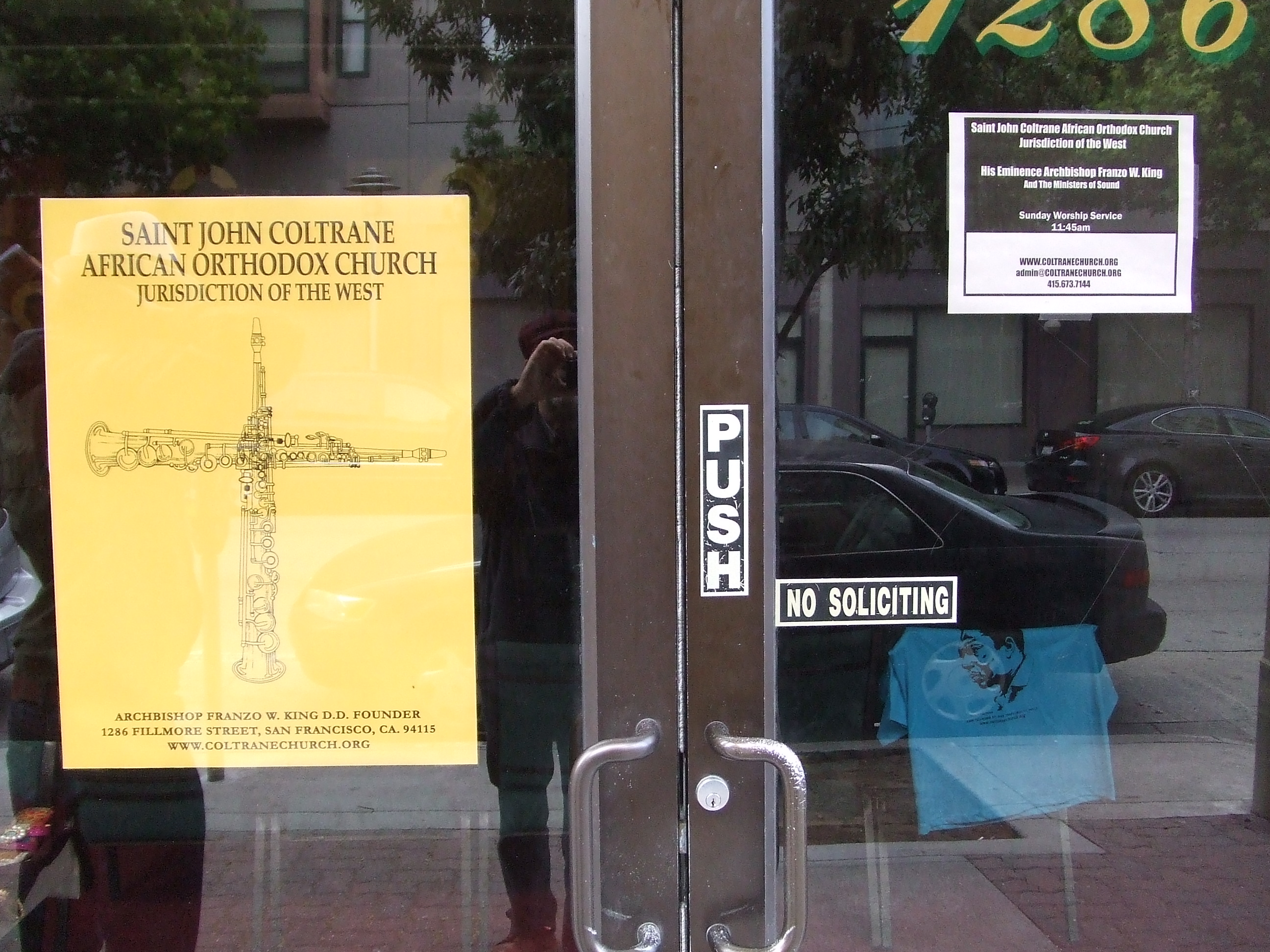 Coltrane Church san Francisco